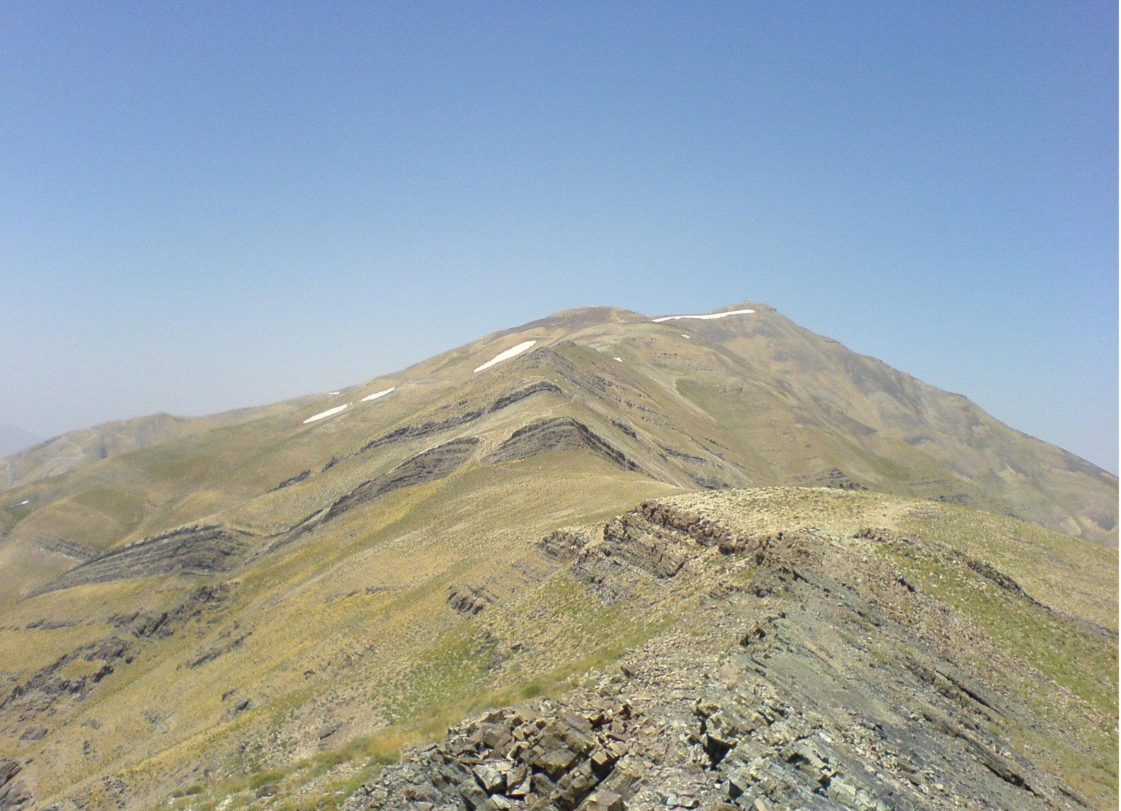 Tochal Peak as seen from Piazchal Peak